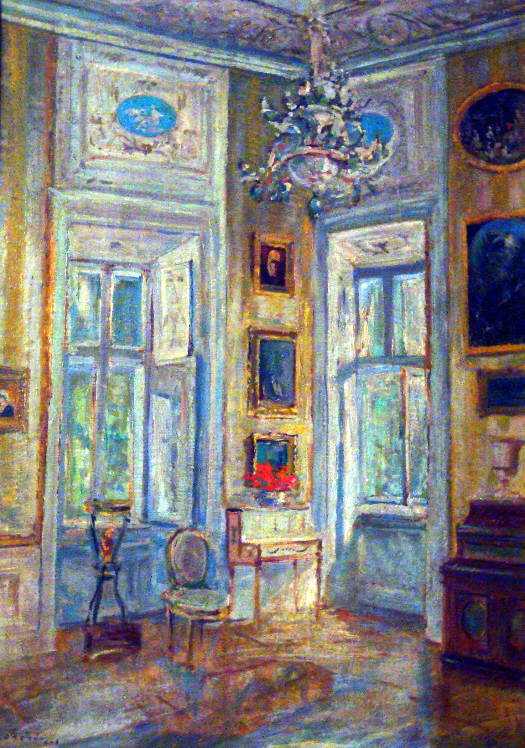 photo of a painting by Zdzislaw Pagowski, depicting the interior of Nieborow palace near Lowicz, Poland